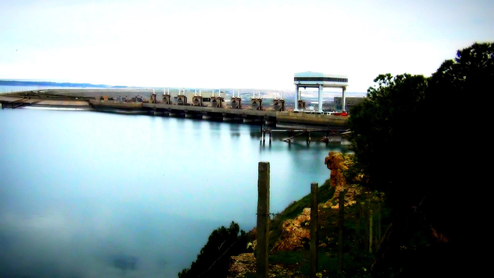 Tabqa Dam